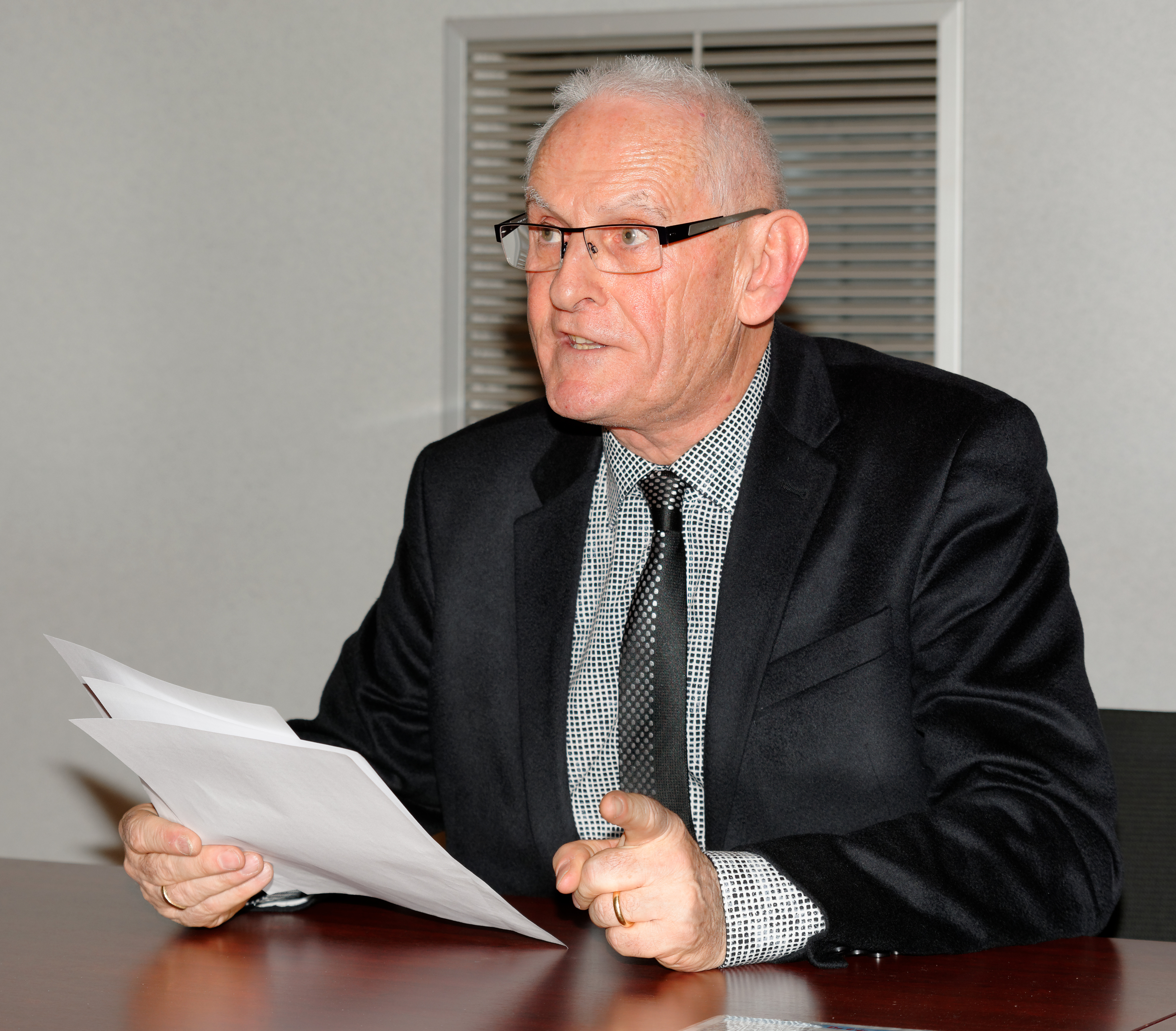 This image was taken with a Tamron SP AF 24-70mm F / 2.8 Di VC USD objective for Nikon digital single-lens reflex camera donated for photos by Wikimédia France. English | français | +/− Personality rights warningAlthough this work is freely licensed or in the public domain, the person(s) shown may have rights that legally restrict certain re-uses unless those depicted consent to such uses. In these cases, a model release or other evidence of consent could protect you from infringement claims.